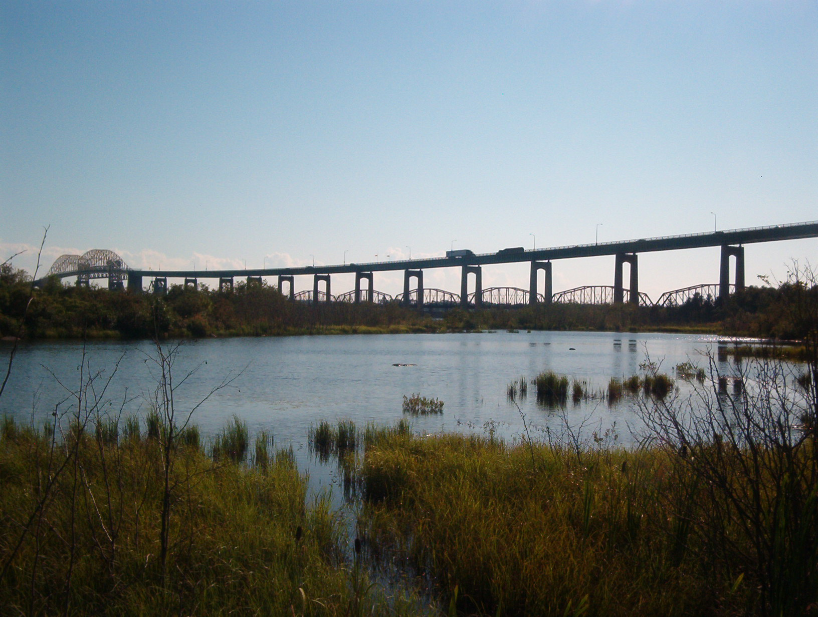 The Sault Ste. Marie (ON/MI) International Bridge, taken from the boardwalk on South Ste. Mary's Island, Sault Ontario.